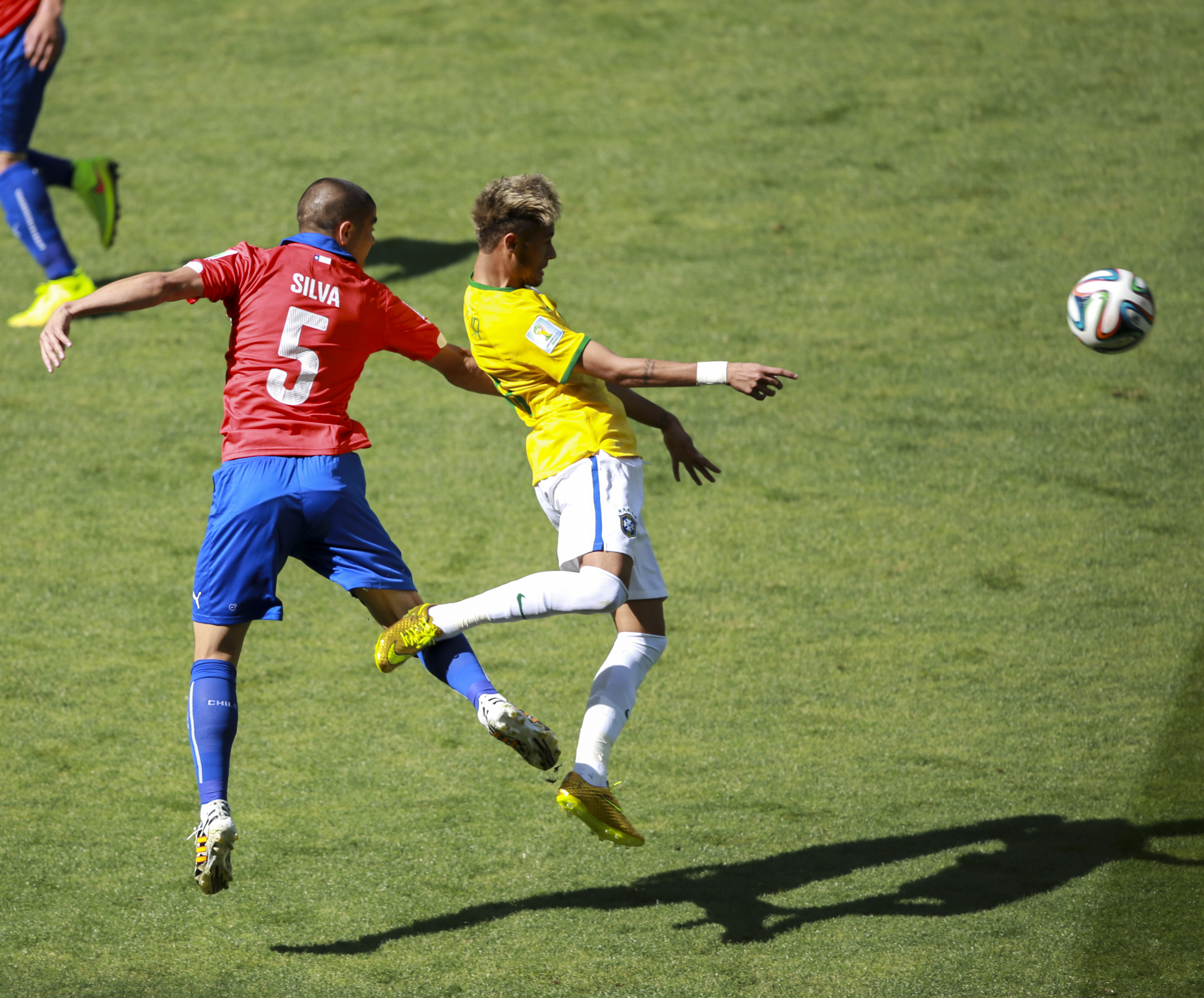 Brazil vs. Chile in Mineirão